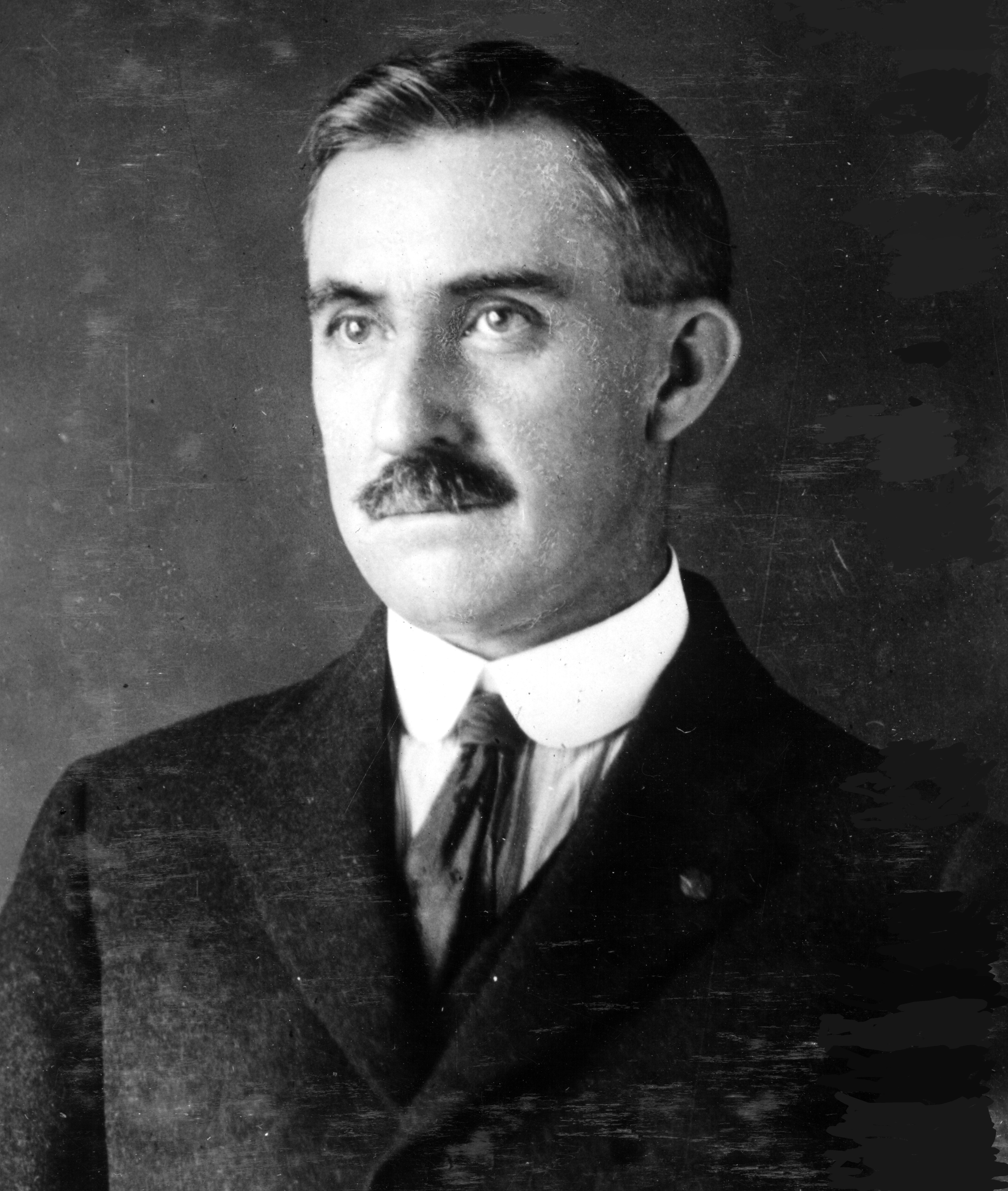 Black and white photograph of Oscar Edward Meinzer